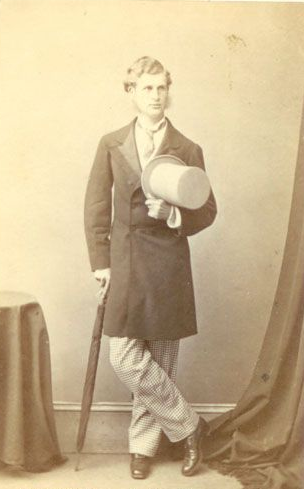 Unidentified man by A. Sonrel. Card includes handwritten note: "Nathan Appleton", so this might be Nathan Appleton Jr. (1843–1906).